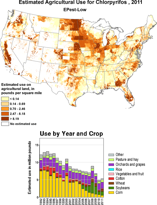 Chlorpyrifos map of use, USA, 2011 (estimated)